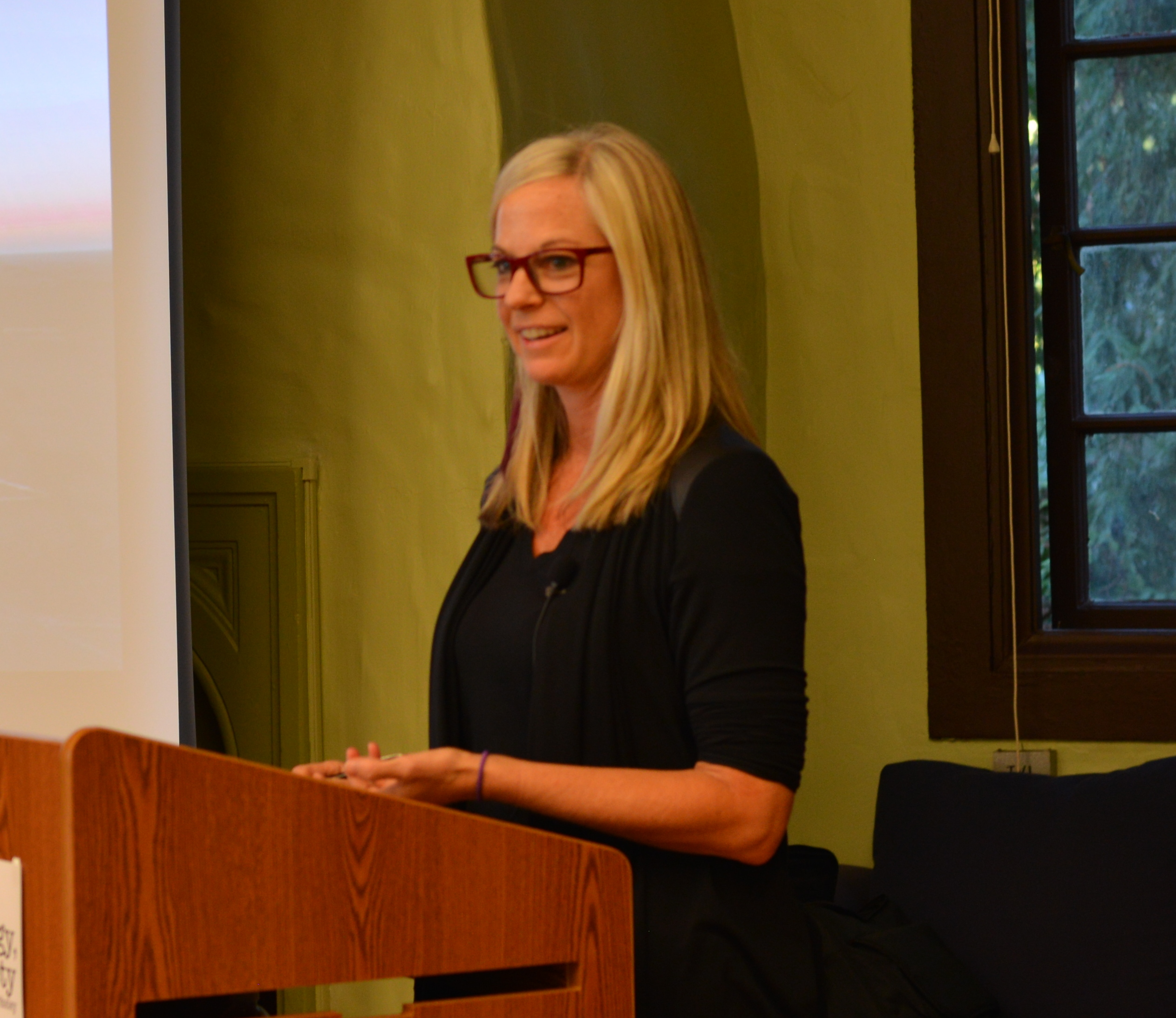 MacArthur "Genius" Fellowship winner Lisa Parks speaking at Berkeley Center for New Media in 2013